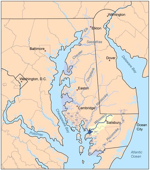 This is a map of the rivers of the Eastern Shore of Maryland with the Wicomico River and its watershed highlighted. I made it using USGS data.